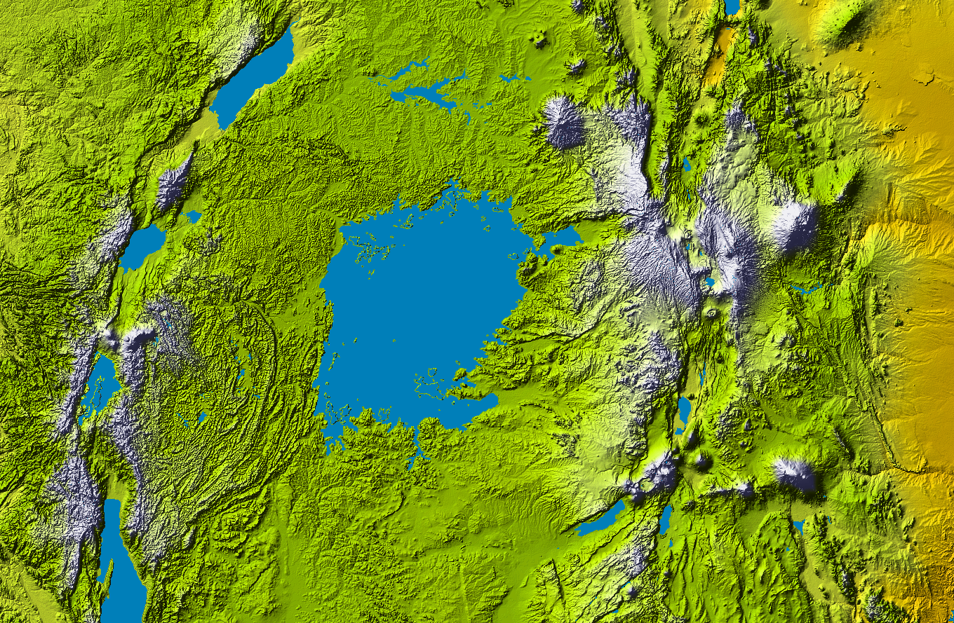 Topography of Lake Victoria